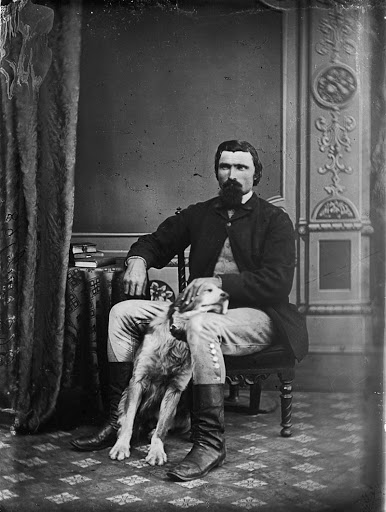 A portrait photo of George Fairweather Moonlight taken in about 1867